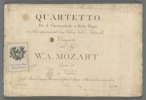 A first edition of the parts for Wolfgang Amadeus Mozart’s Piano Quartet, K. 493.